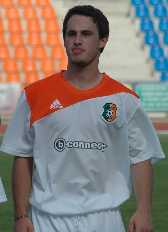 Diego Ferares Litex Lovech players